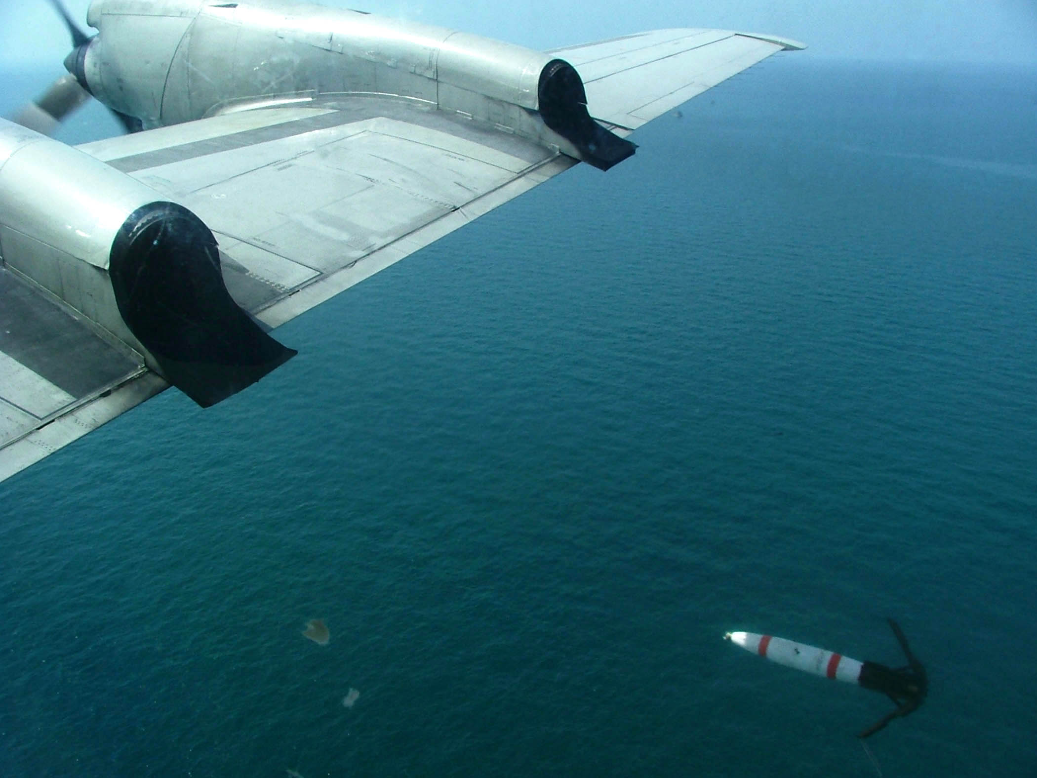 Gulf of Thailand (July 5, 2004) - A MK 62 “Quick Strike” mine is deployed from the starboard wing of a P-3C Orion aircraft form the Grey Knights of Patrol Squadron Four Six (VP-46). VP-46 is participating in a mine exercise during the Thailand phase of exercise Cooperation Afloat Readiness and Training (CARAT). CARAT is a regularly scheduled series of bilateral military training exercises with several Southeast Asia nations designed to enhance the interoperability of the respective sea services. U.S. Navy photo by Chief Journalist Joseph Krypel (RELEASED)